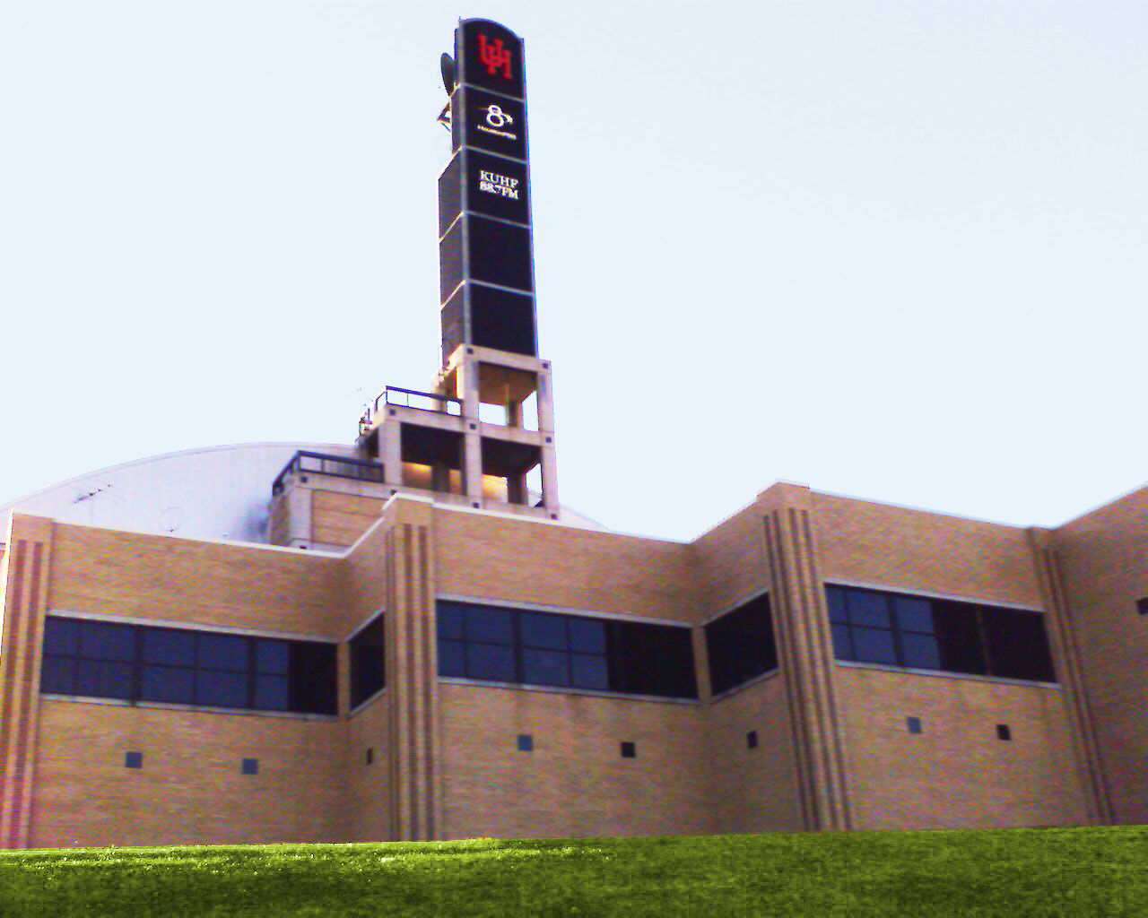 LeRoy and Lucile Melcher Center for Public Broadcasting, the home of HoustonPBS and Houston Public Radio at the University of Houston.